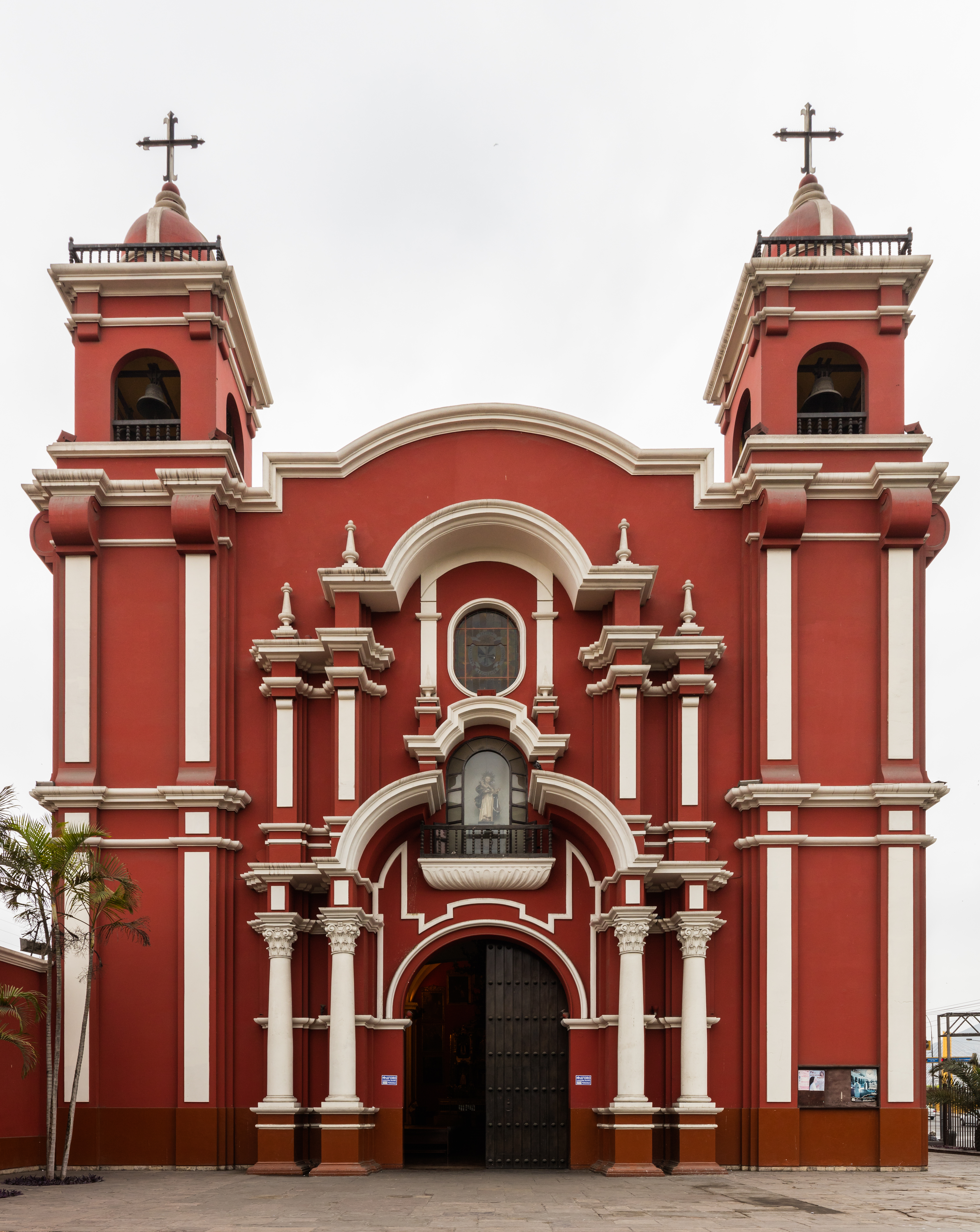 Church of St Rosa, Lima, Peru